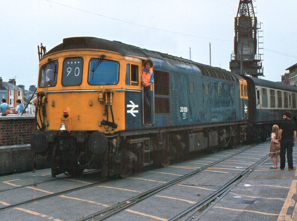 33109 negotiates the backstreets of Weymouth on its way from the quay during August 1981